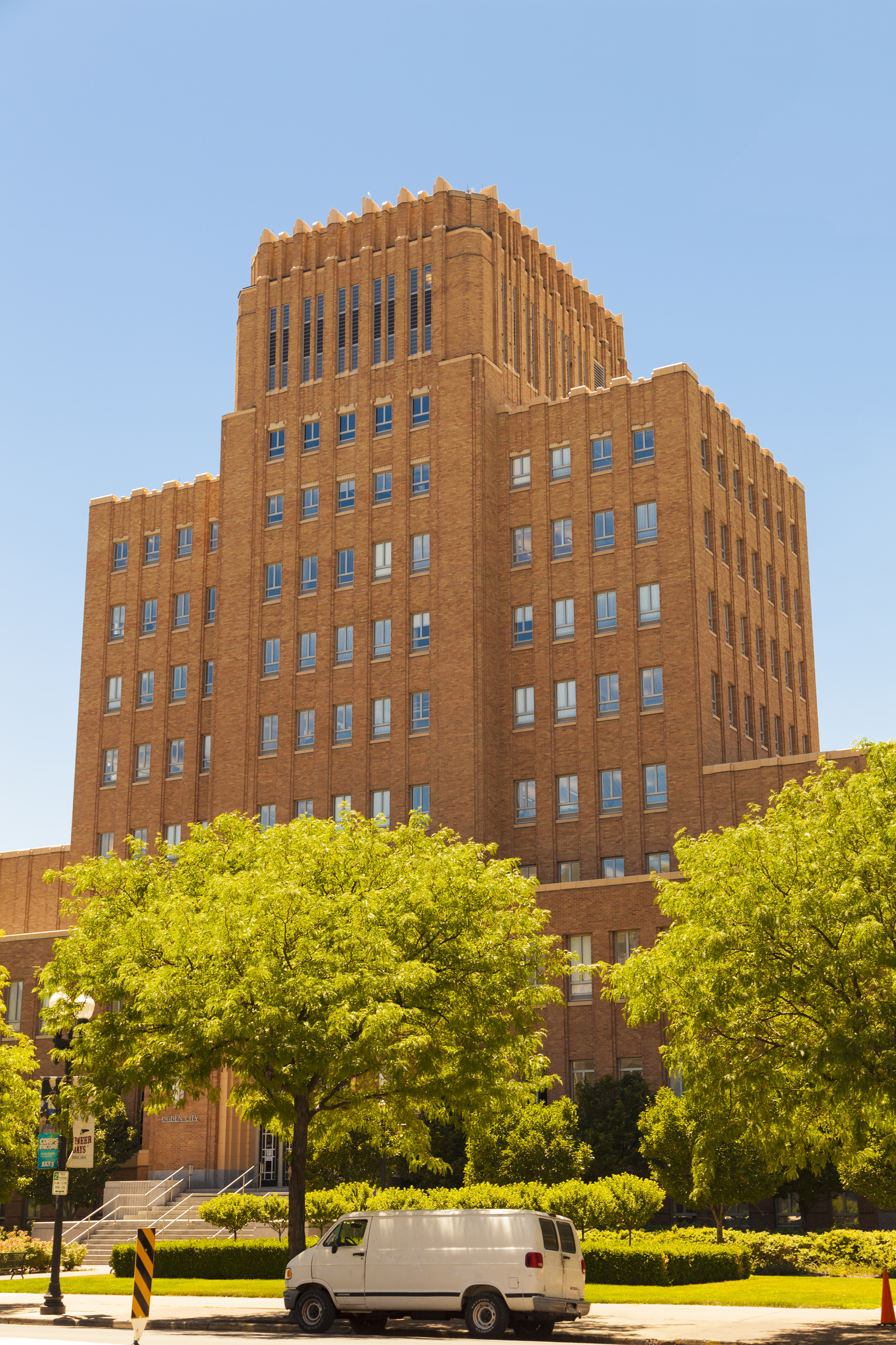 Ogden City Municipal Building at 2549 Washington Blvd Ogden, Utah, USA.